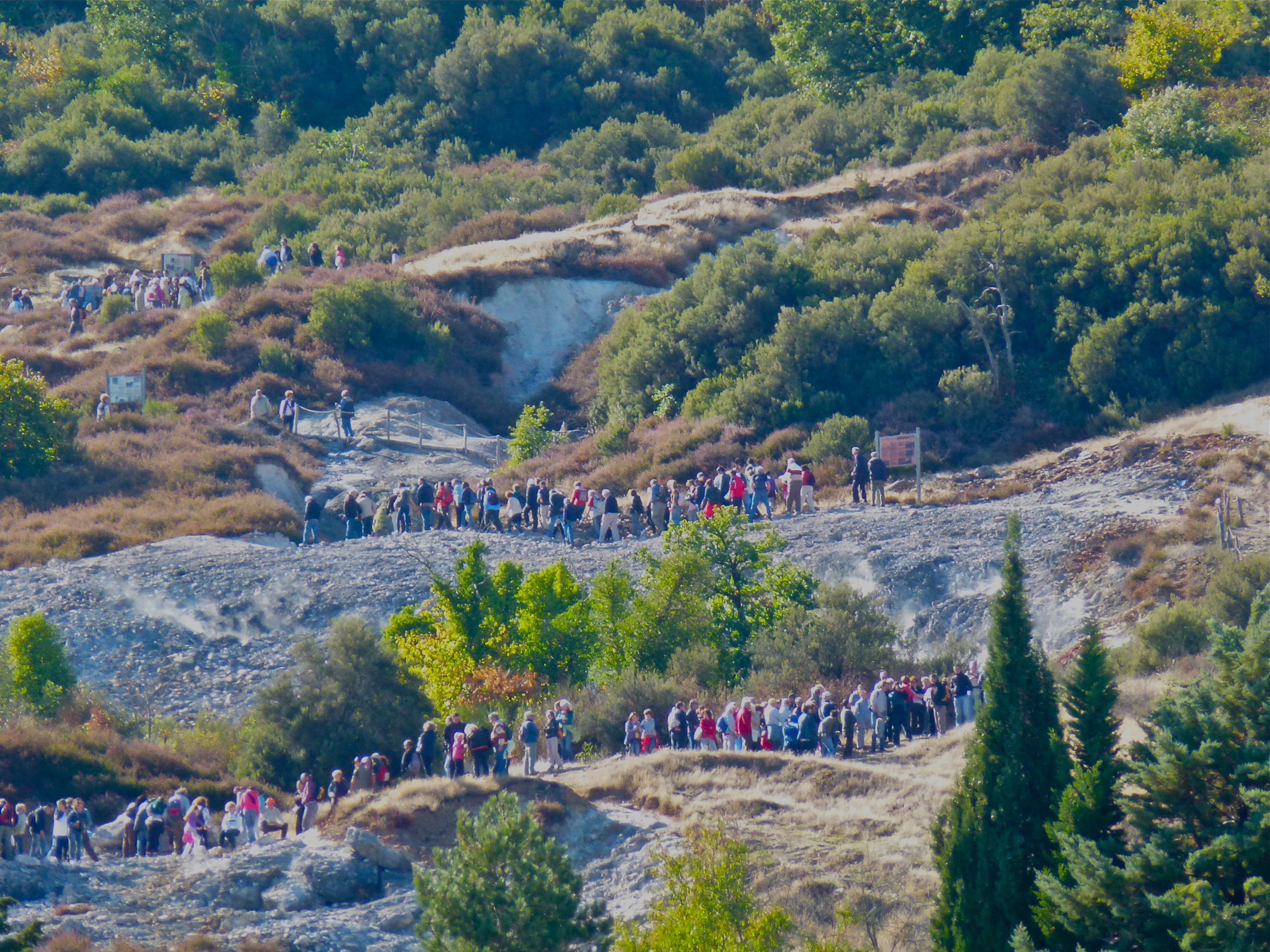 Geotermal of Sasso Pisano (PI) Italy